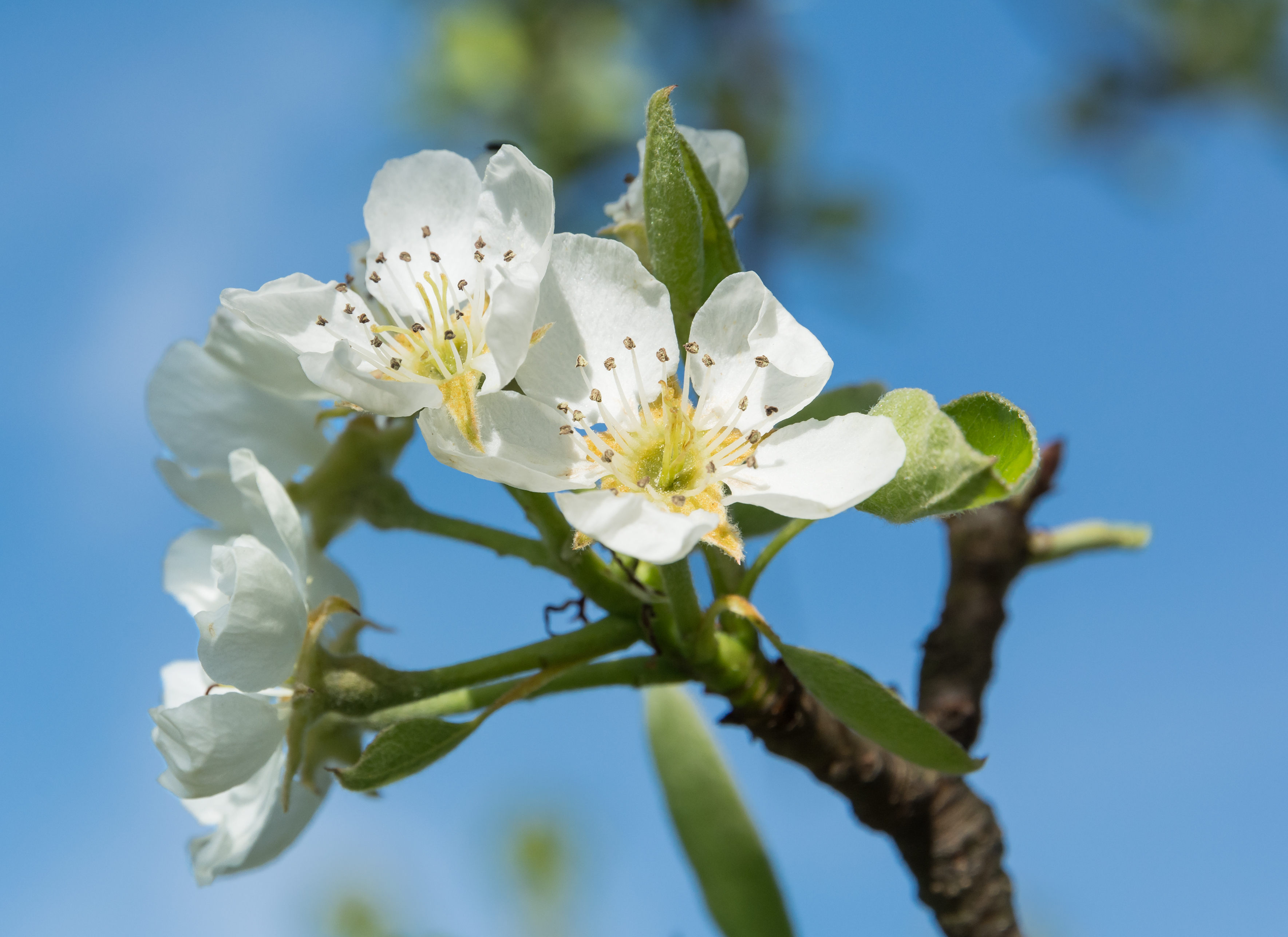 Pear, Pyrus communis, blossoms